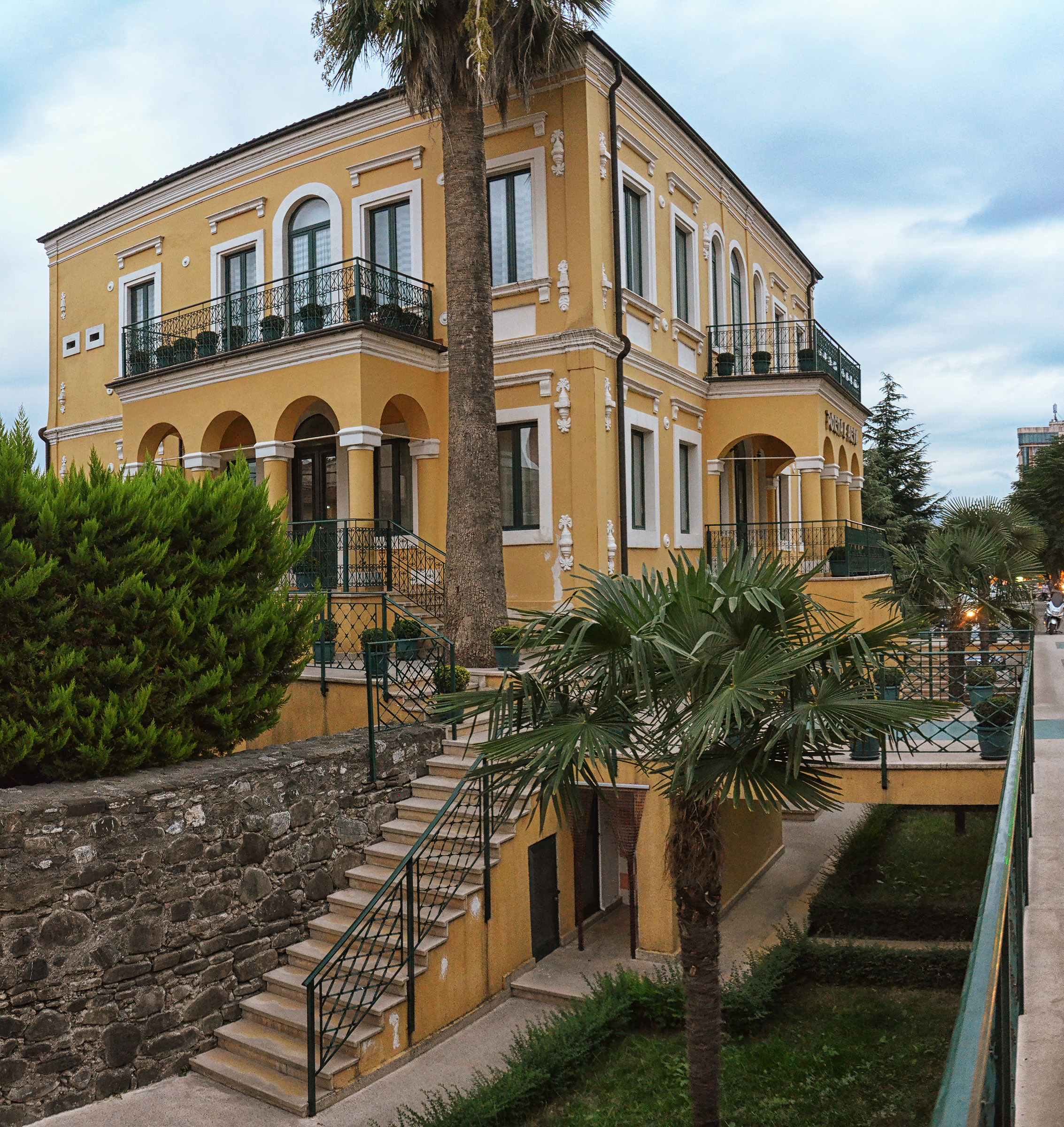 The former house of Shefqet Vërlaci, today restaurant in Elbasan, Albania